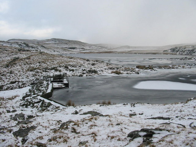 Llyn Gelli -Gain Wintry conditions but the mist lifted kindly to allow this photo.